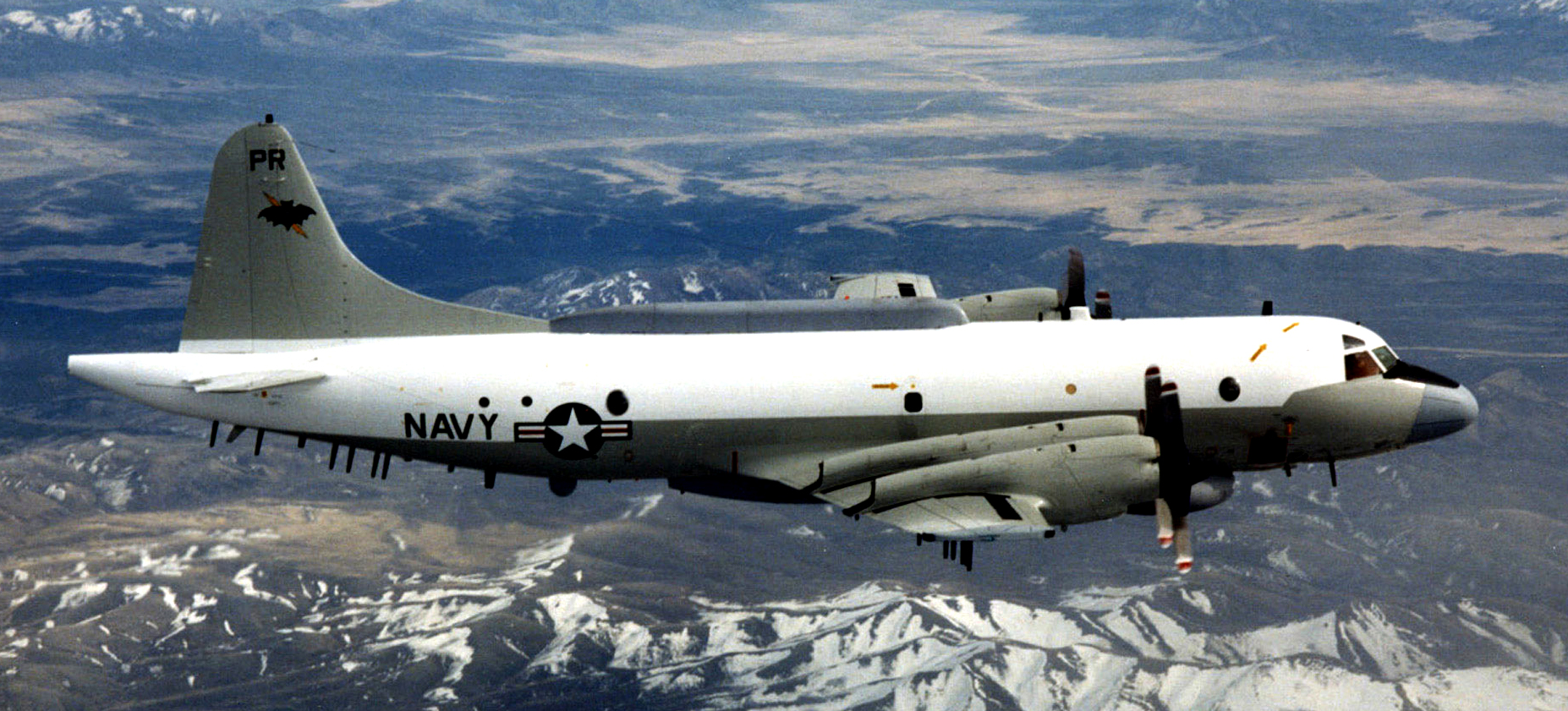 A Lockheed EP-3 Orion of fleet reconnaissance squadron VQ-1 World Watchers.